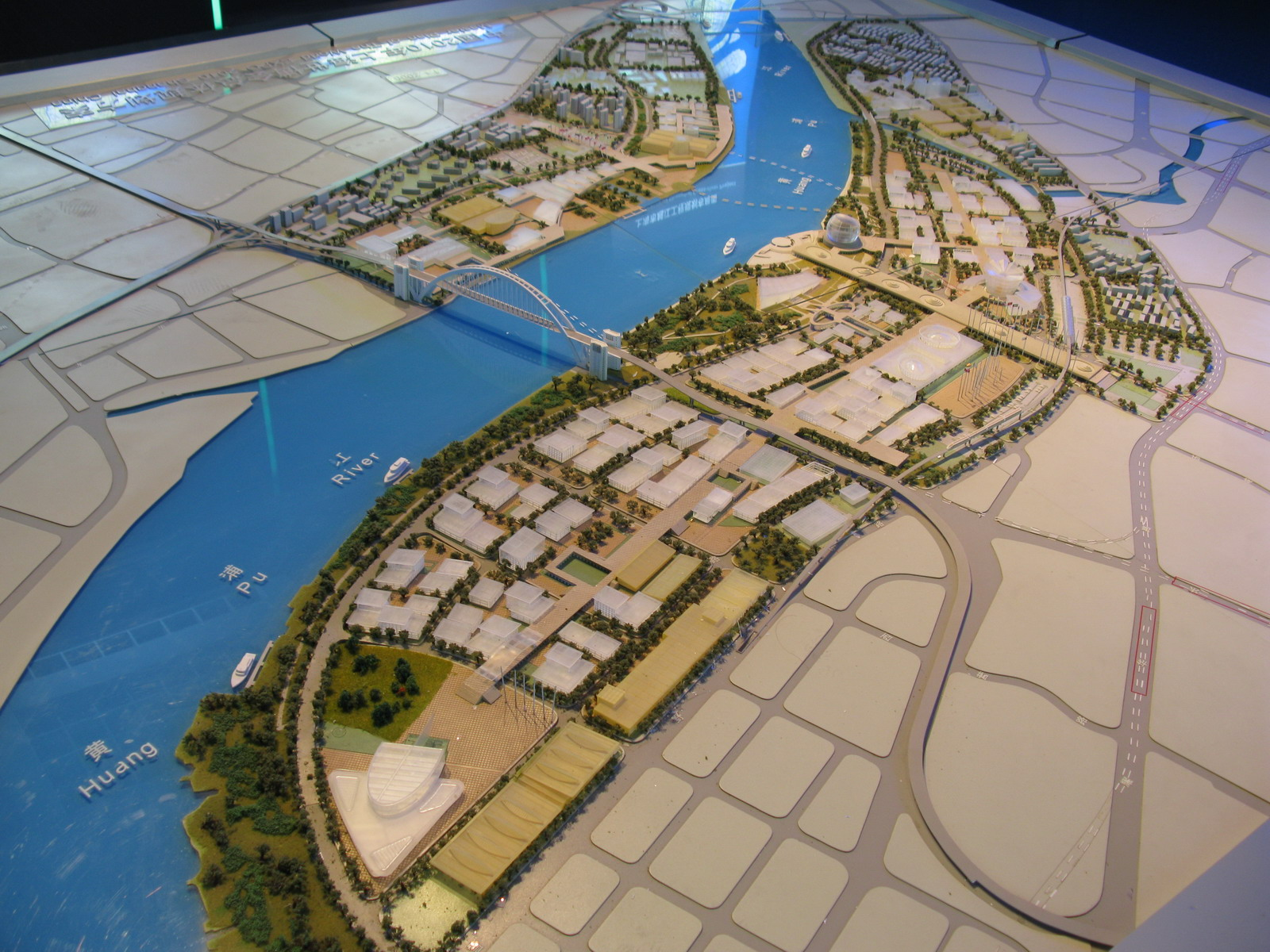 Building Model showing Expo 2010 Site, permanently situated at Shanghai Urban Planning Exhibition Center. Phototaking is allowed there.